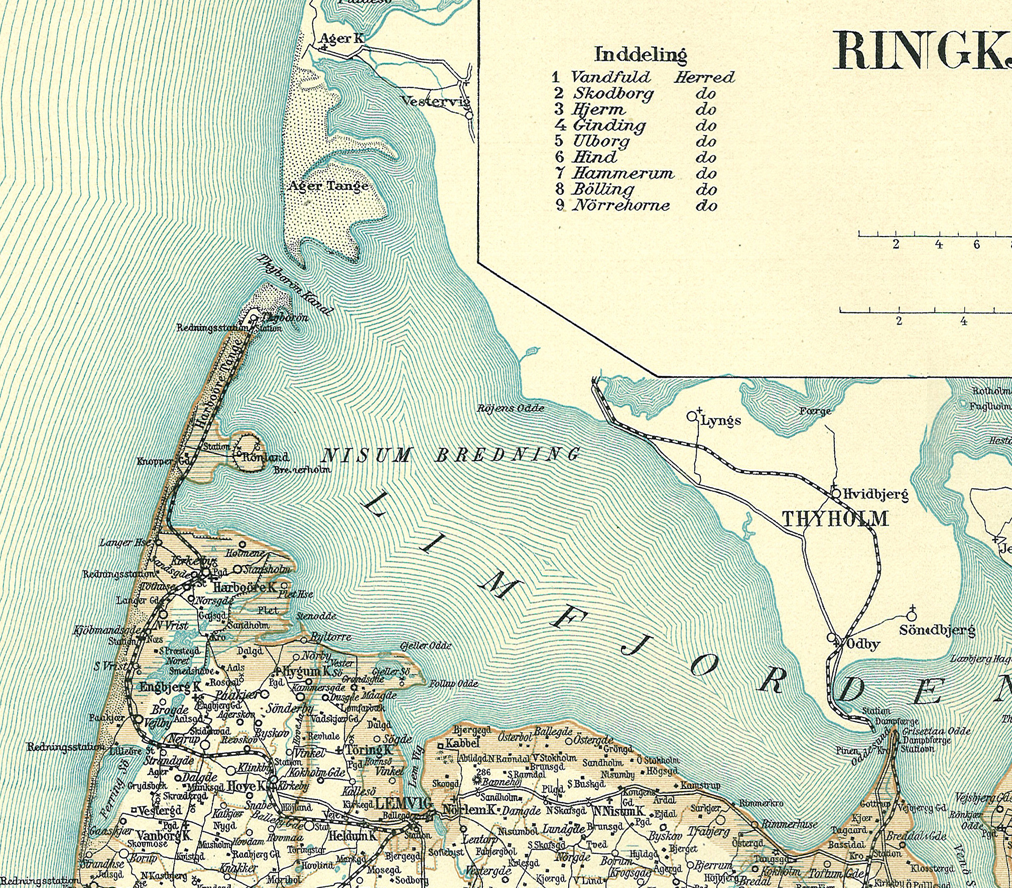 Map of Nissum Bredning in Limfjorden in Denmark